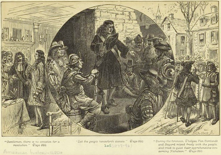 Engraving depiction colonial New York councilors Nicholas Bayard, Stephanus van Cortlandt, and Frederick Phillipse attempting to quiet revolutionary fears at the time of Leisler's Rebellion in New York City, 1689.